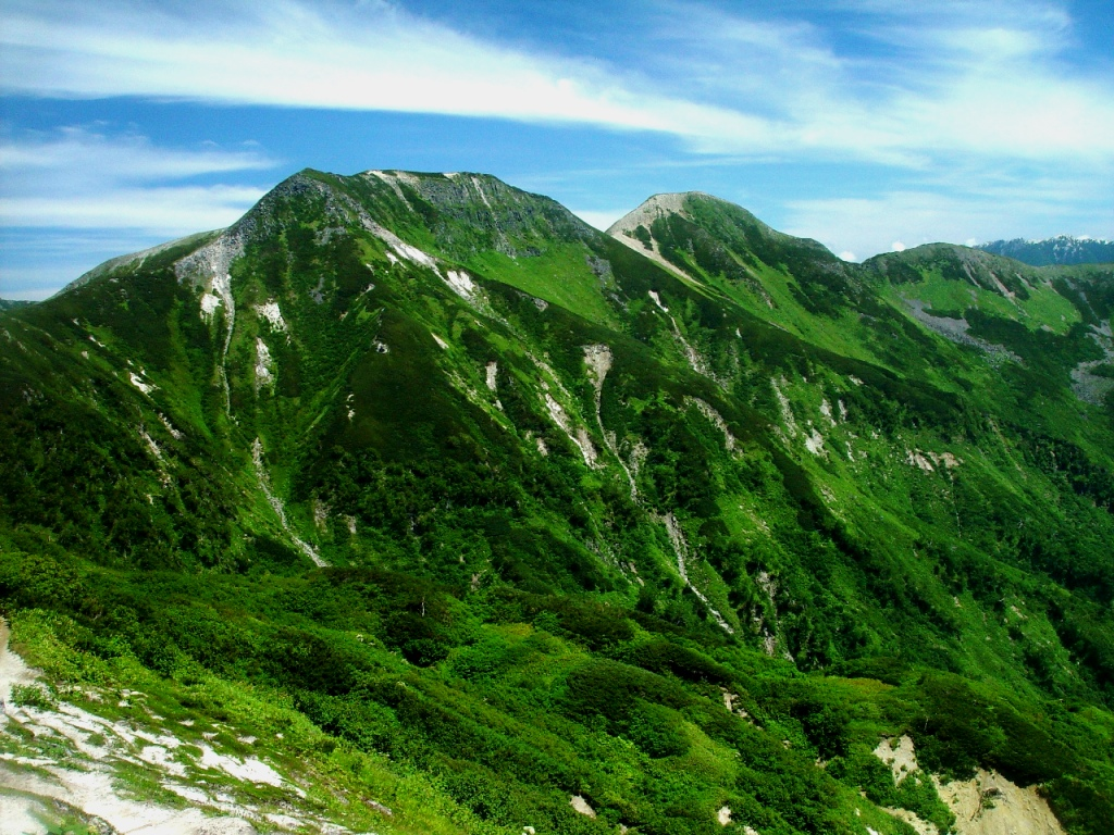 Mount Momisawa from Mount Yumiori